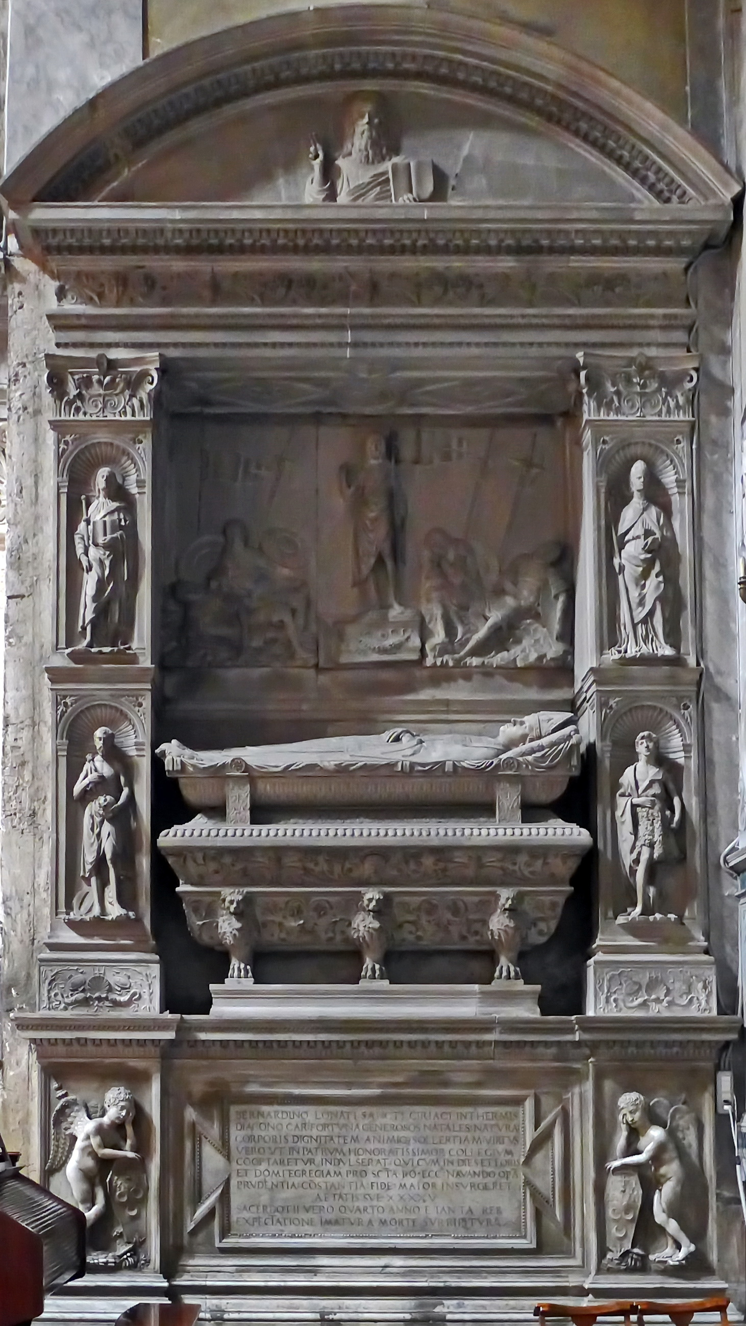 Funeral monument for Cardinal Bernardino Lonati; Santa Maria del Popolo, Rome